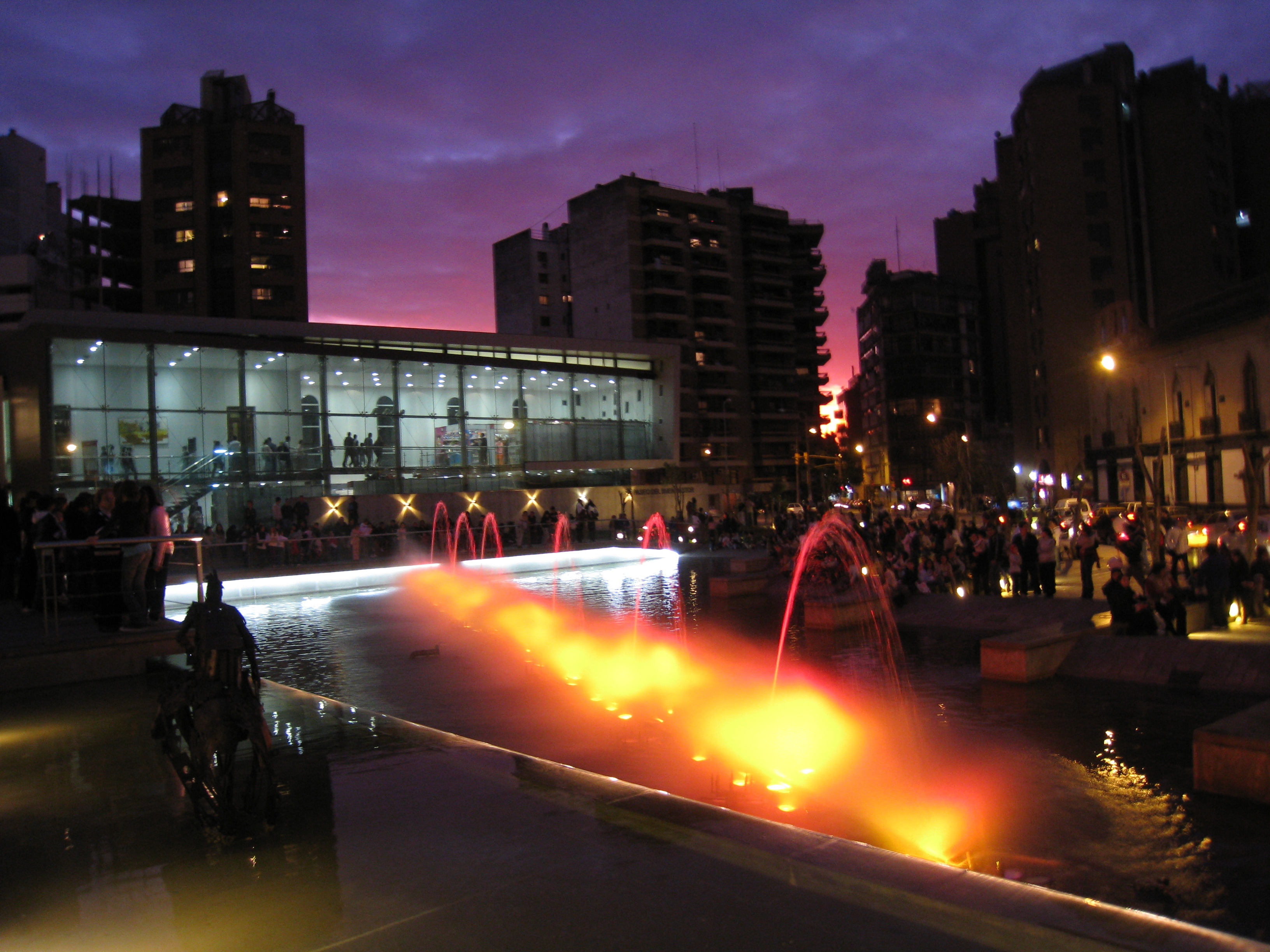 Del Buen Pastor mall, at a thursday afternoon. Cordoba, Argentina.